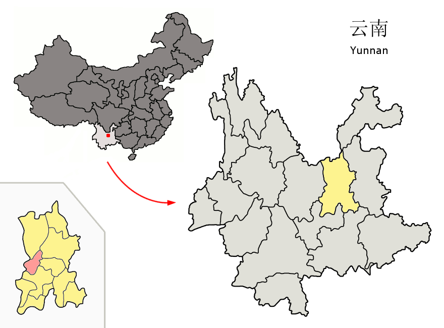 Location of Fumin County (pink) and Kunming prefecture (yellow) within Yunnan province of China Map drawn in september 2007 using various sources, mainly : Yunnan province administrative regions GIS data: 1:1M, County level, 1990 Yunnan Counties map from